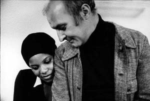 Arman and his wife Corice